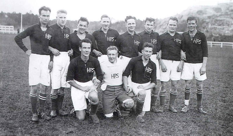 Helsingin Palloseura squad that won Finnish championship in 1927. Bottom row (from left): Niilo Koskinen, Paavo Karhunmaa, Heimo Saarilahti Top row (from left): Yrjö Tornivuori, Max Viinioksa, Aulis Koponen, Sulo Saario, William Kanerva, Alexander Karjagin, Eino Soinio, Aarne Mantila